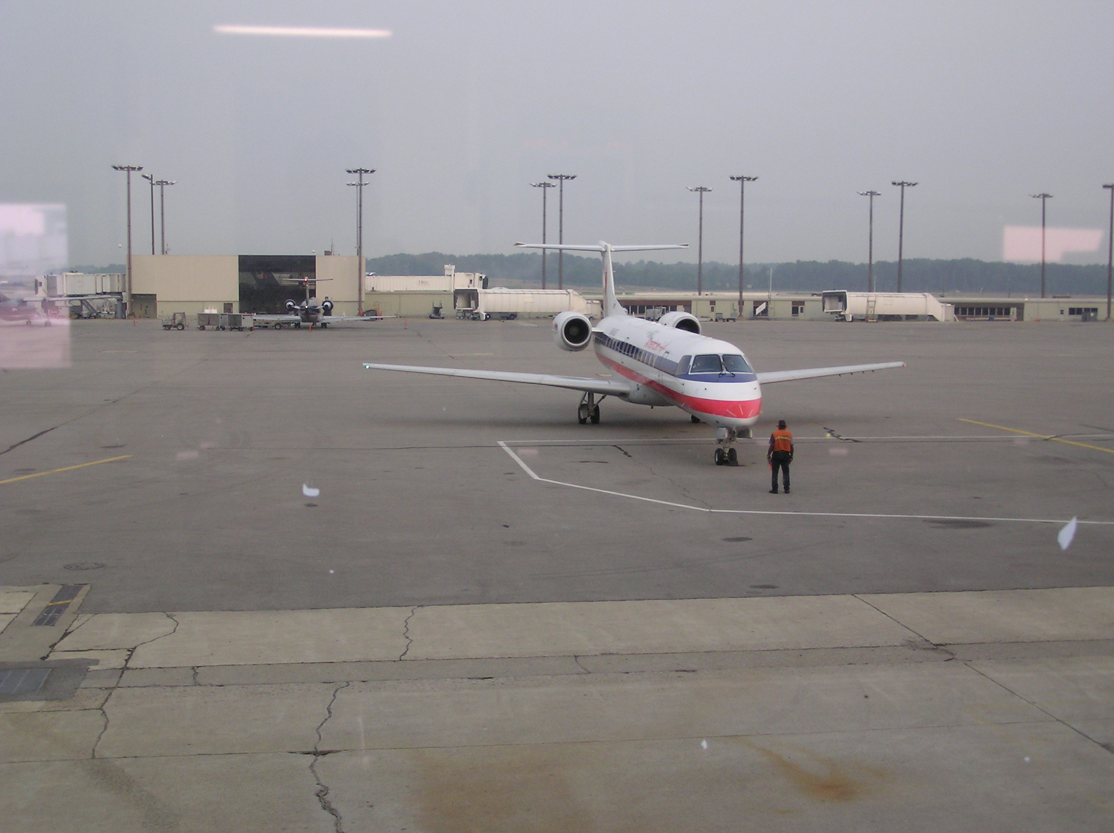 An image of the American Eagle as seen from Terminal 2 taken on morning of July 1, 2004. I am the author, creator and taker of this image